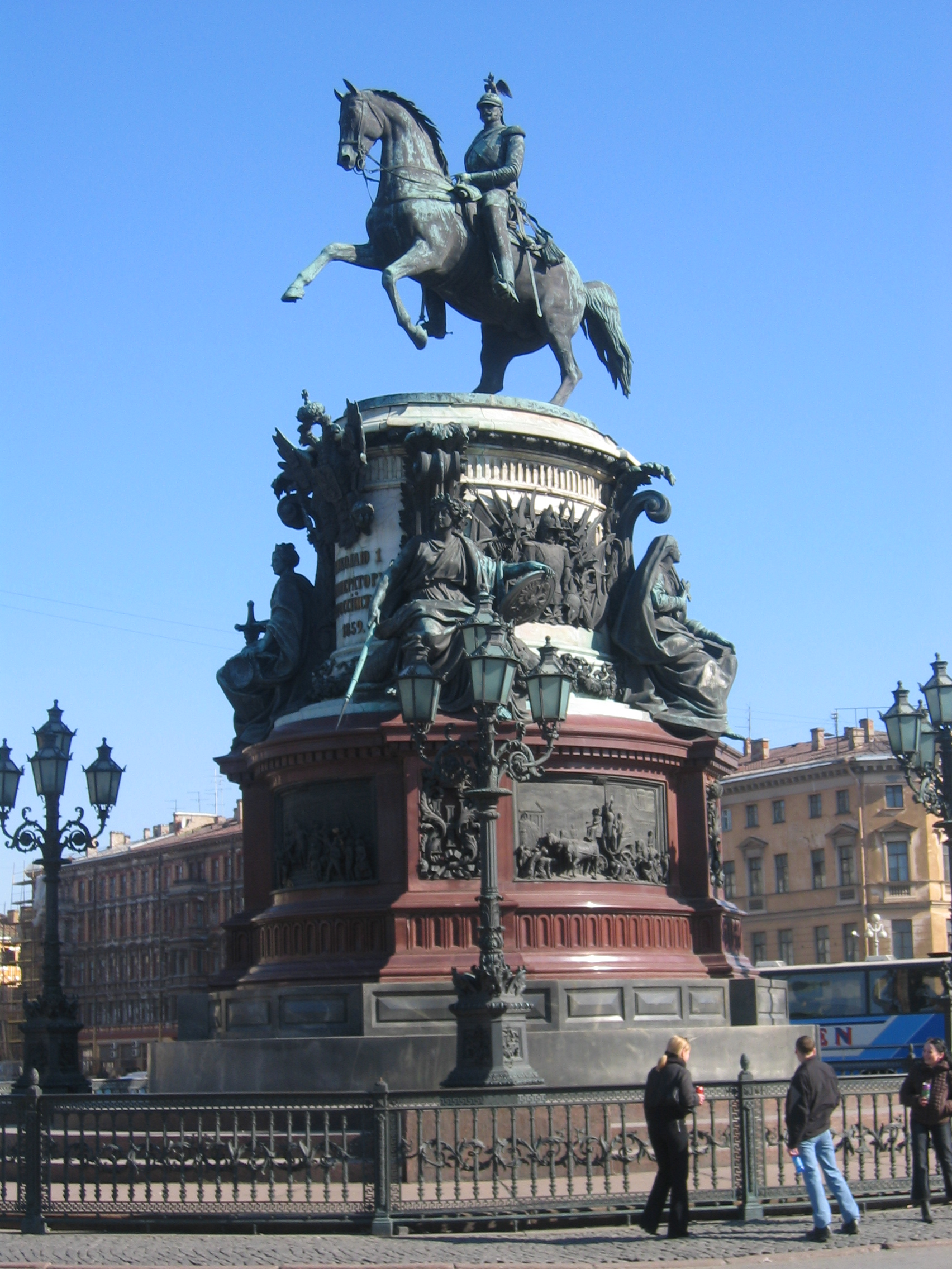 Monument to Nicholas I of Russia, Saint Petersburg